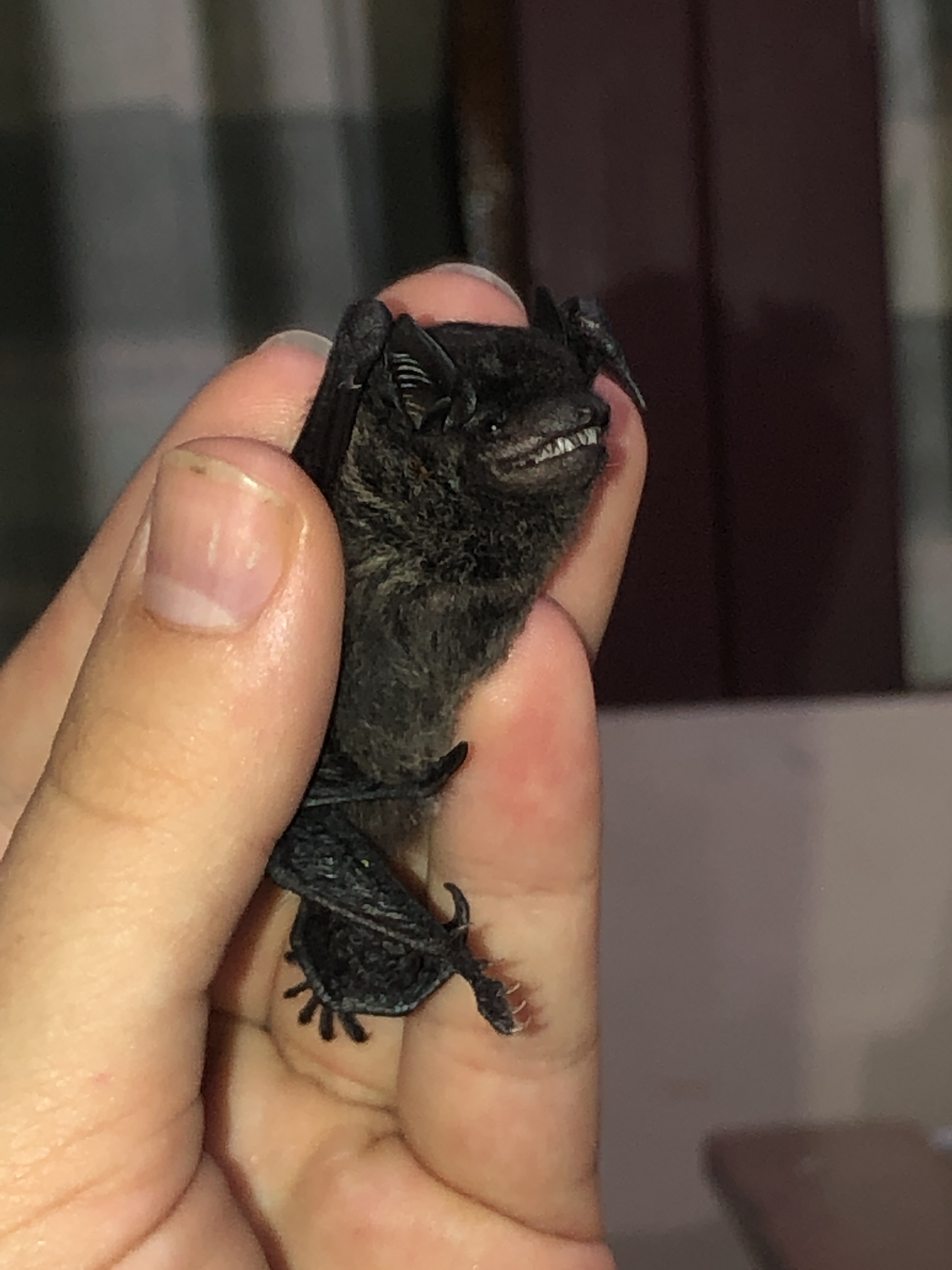 Myotis nigricans caught and released in the Tiputini Biodiversity Research Center